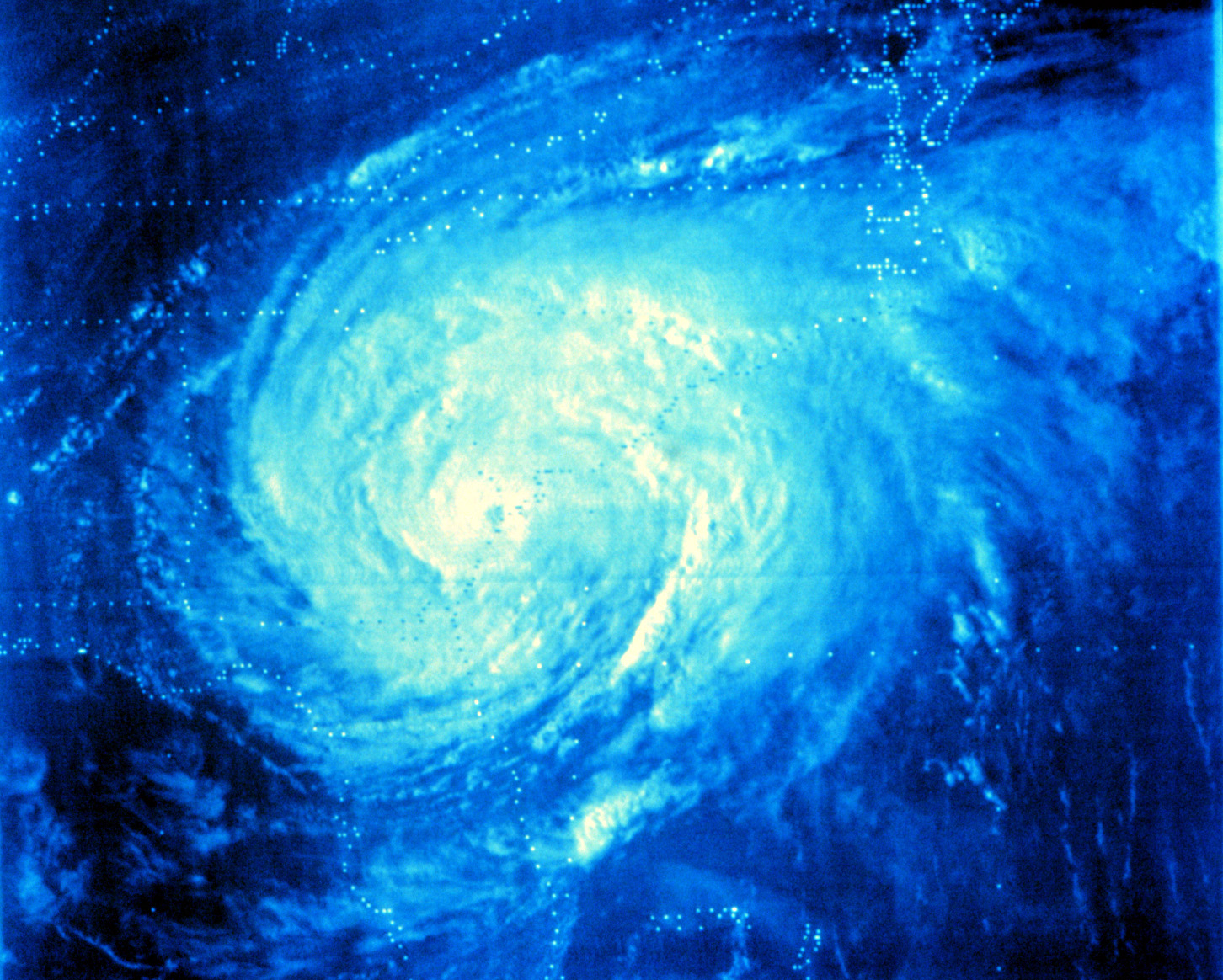 Hurricane David as a Category 1 hurricane offshore of Jacksonville, Florida.